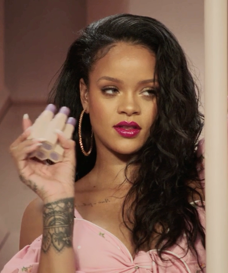 Rihanna for a Fenty Beaty campain in 2018